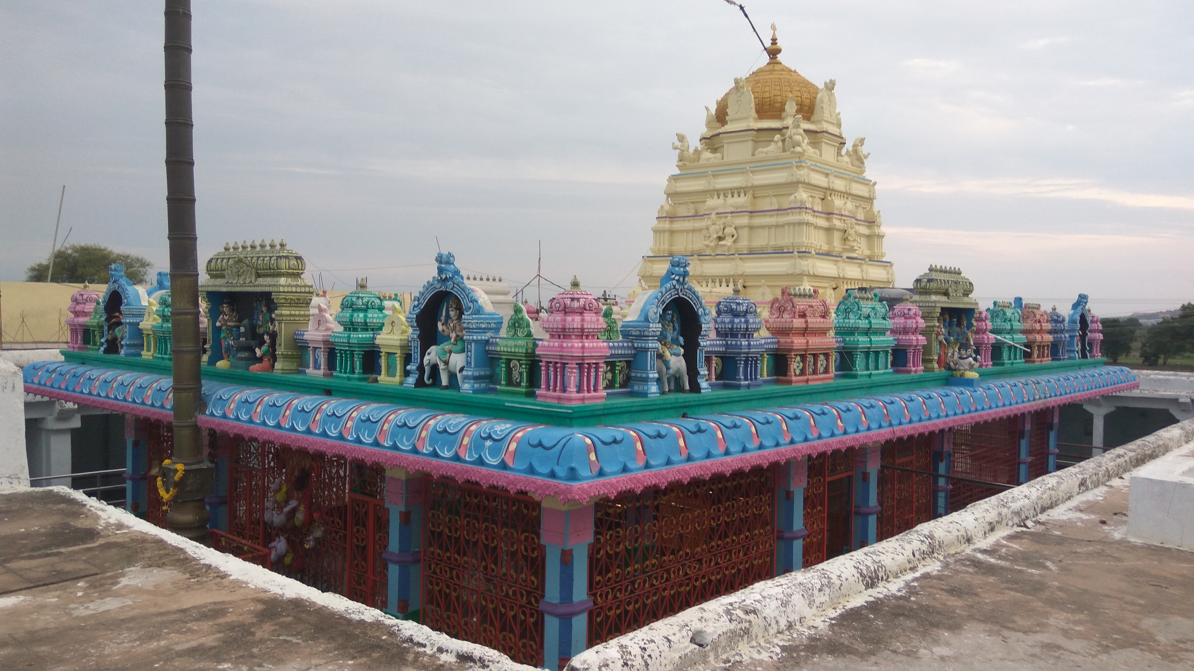 Rameshwara Temple, Raikal, Farooqnagar, Mahbubnagar District,Telangana State 01